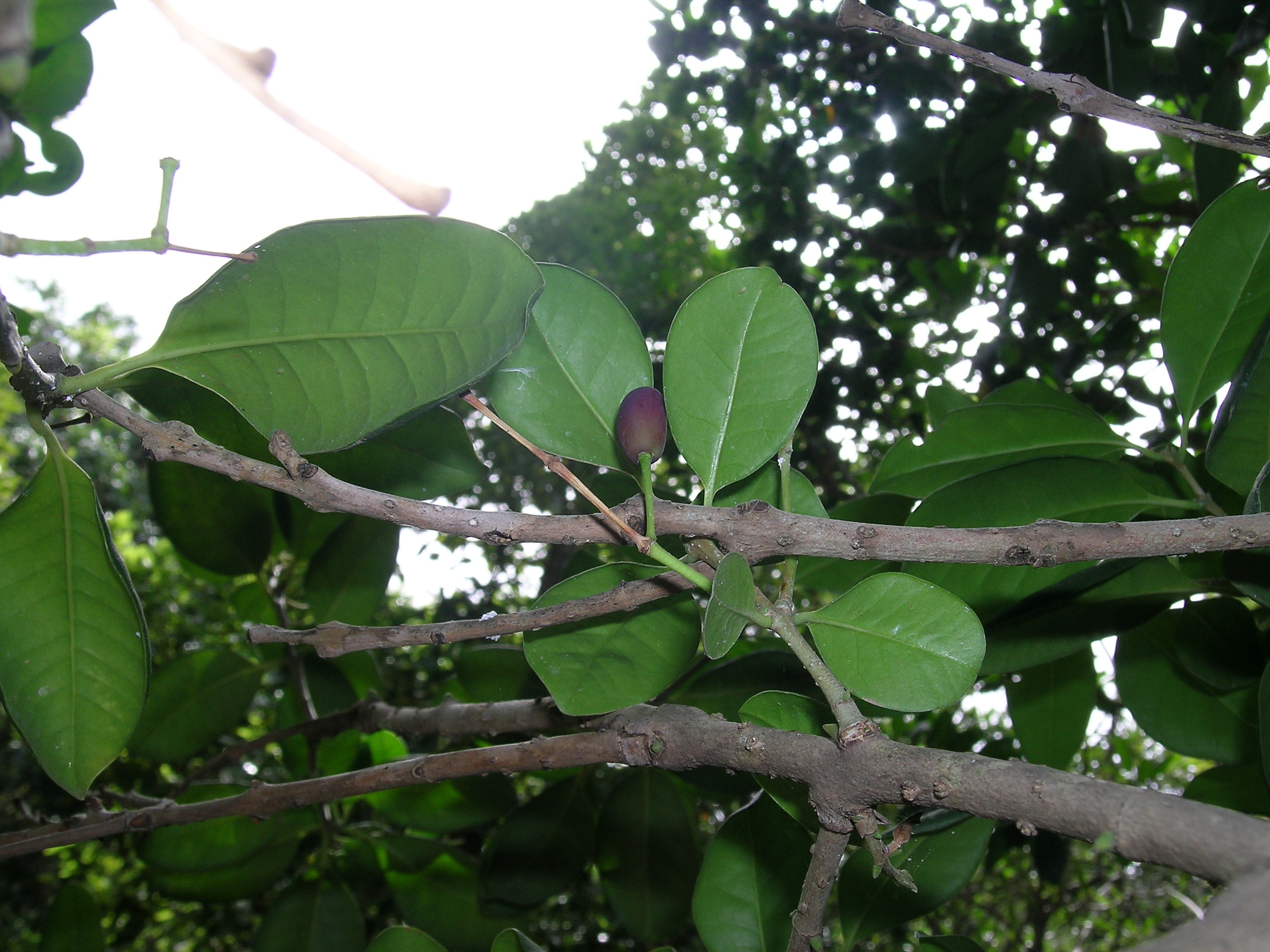 Picconia excelsa ripe fruit